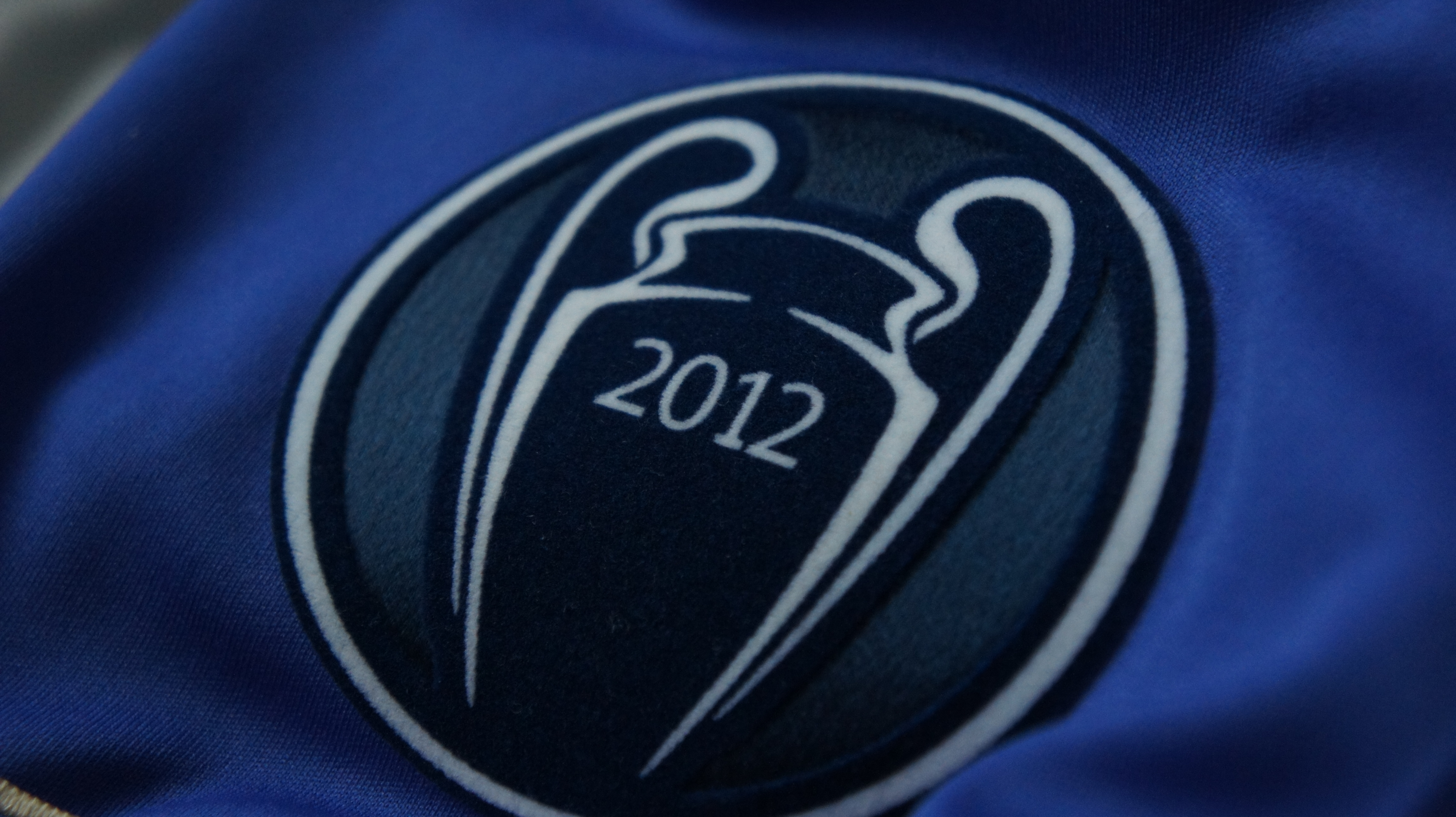 UEFA Champions League Titleholder Badge 2012